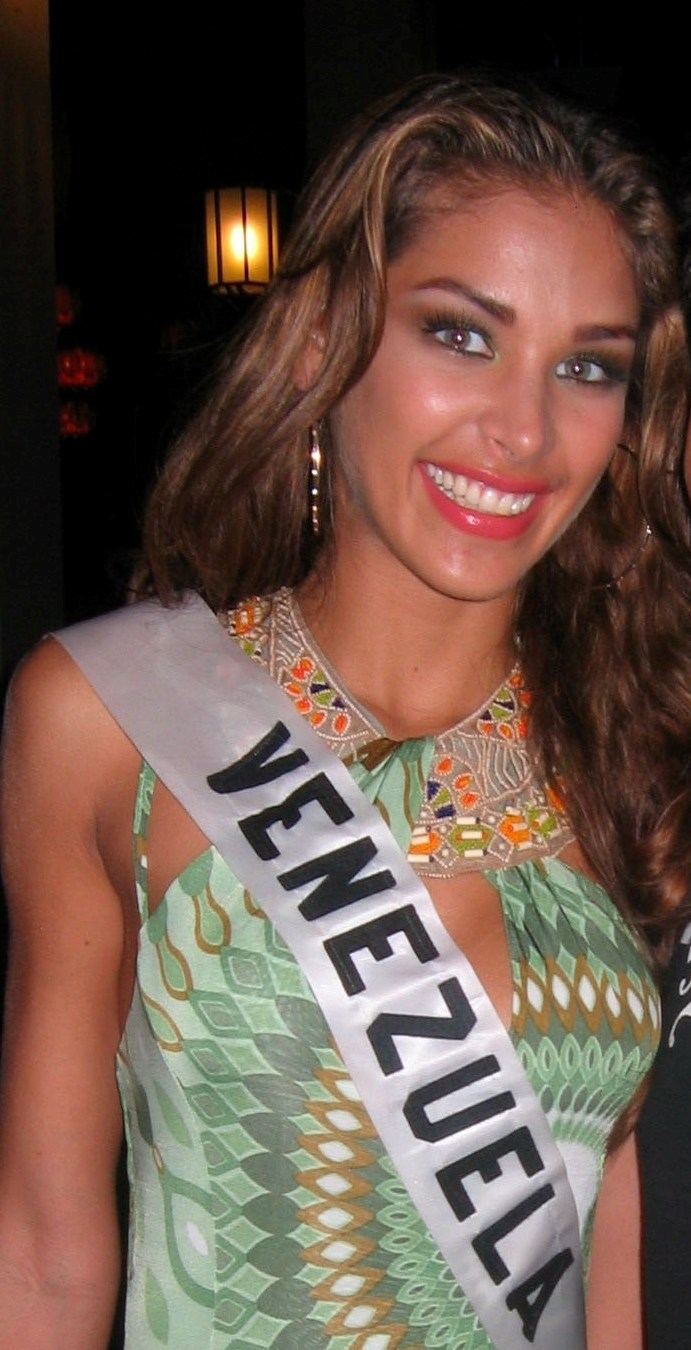 Dayana Mendoza, Miss Universe 2008